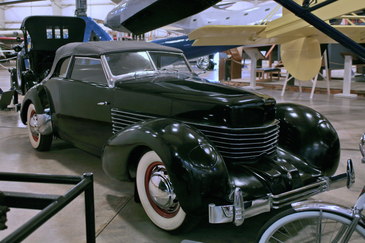 Cord was the brand name of a United States automobile, manufactured by the Auburn Automobile Company from 1929 through 1932 and again in 1936 and 1937. The body design of the Cord 810 was the work of designer Gordon M. Buehrig and his team of stylists. Nearly devoid of chrome, the new car was so low it required no running boards. Pontoon fenders were featured with headlights that disappeared into the fenders via dashboard hand cranks; a wraparound grille and concealed gas hatch were also featured. Its engine-turned dashboard included complete instrumentation, a tachometer and built-in radio. A Lycoming V8 engine powered the car.